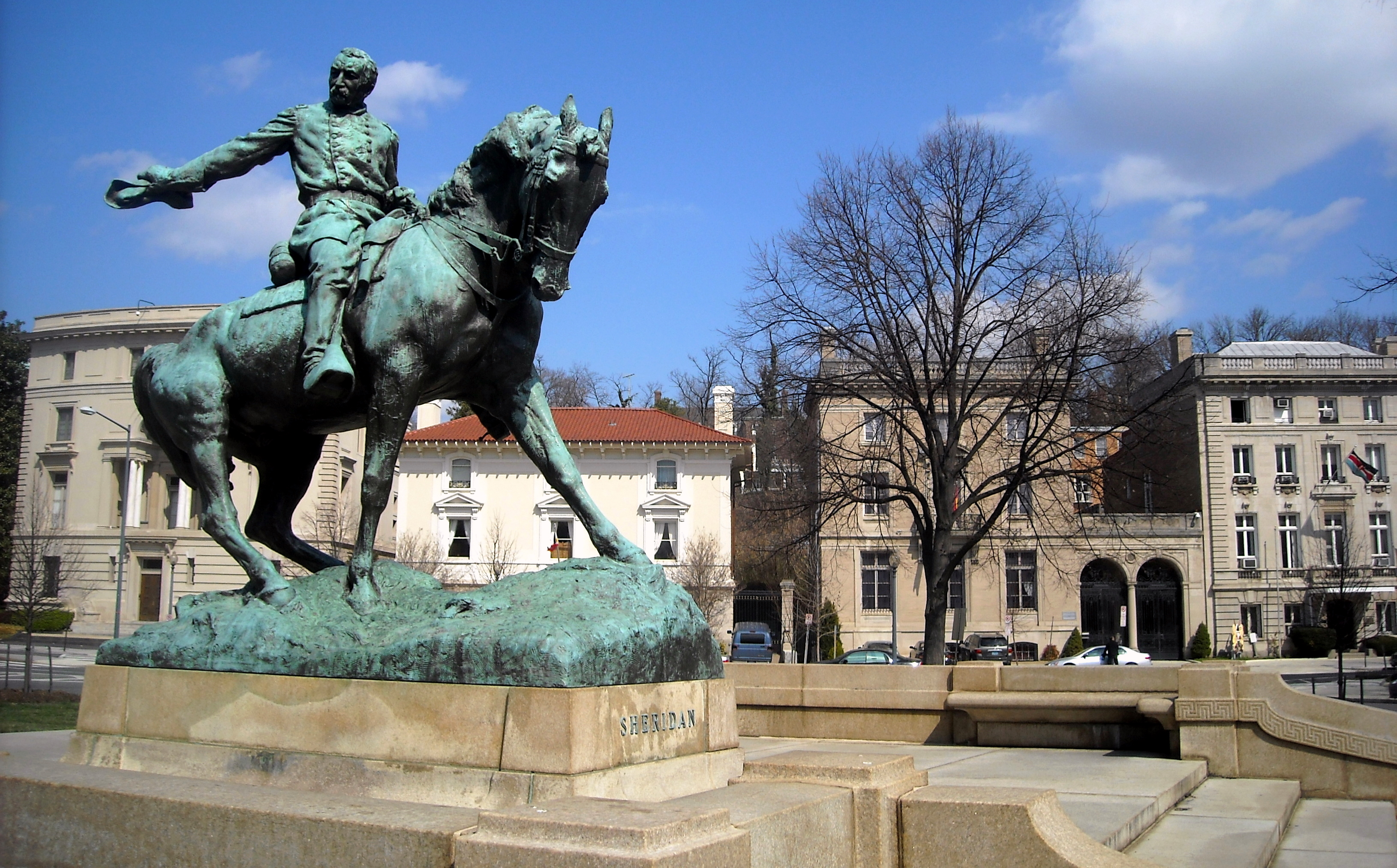 The memorial honoring General Philip Sheridan located in the center of Sheridan Circle in Washington, D.C. It was sculpted by Gutzon Borglum in 1908. The embassies of Kenya and Vietnam, and the diplomatic residences of the Filipino and Egyptian ambassadors are visible in the background (right to left).